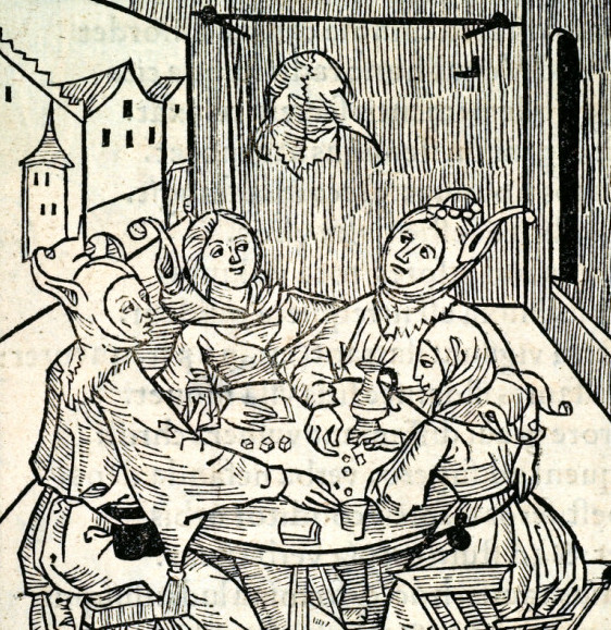 This woodcut is attributed to the artist the Haintz-Nar-Meister. It is an illustration from the book Stultifera navis (Ship of Fools) by Sebastian Brant, published by Johann Bergmann in Basel in 1498.